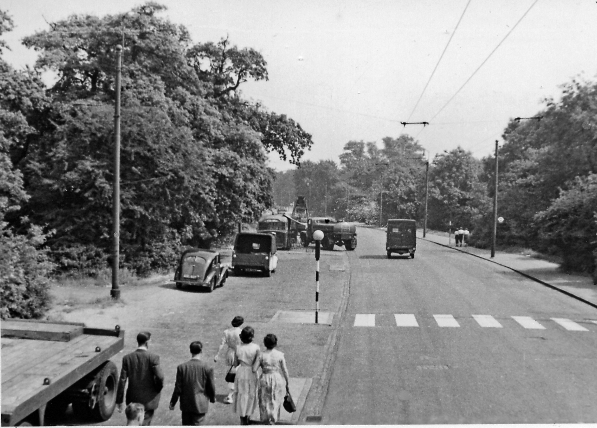 SE on Whipps Cross Road (A114) at junction with Lea Bridge Road (A104), Wanstead. This is the southern extremity of Epping Forest. Whipps Cross Hospital was off to the right. Those were the days: people were so smart - and the middle of the three girls was absolutely gorgeous!